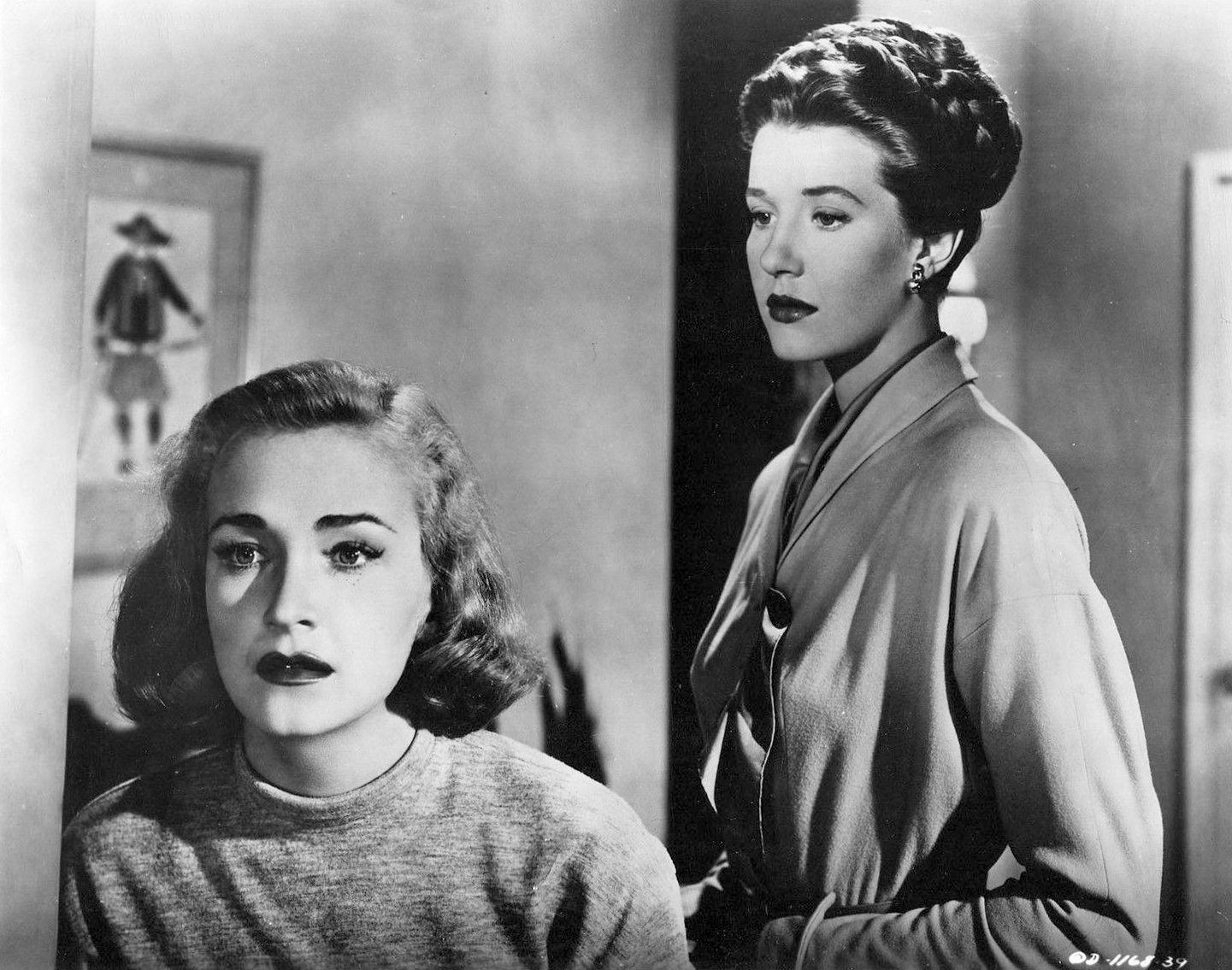 The Dark Past 1948 movie publicity still. Nina Foch and Lois Maxwell